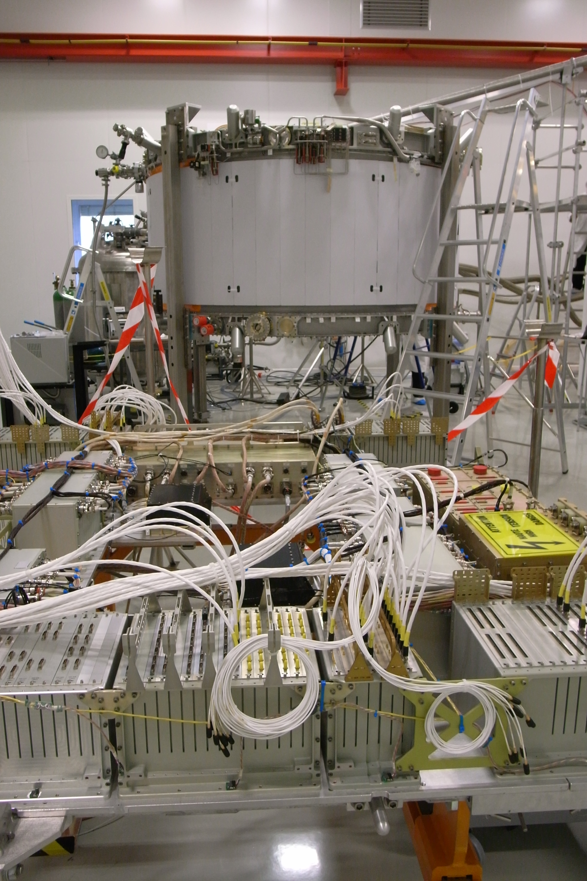 A central part of AMS-02 experiment in the clean room at CERN